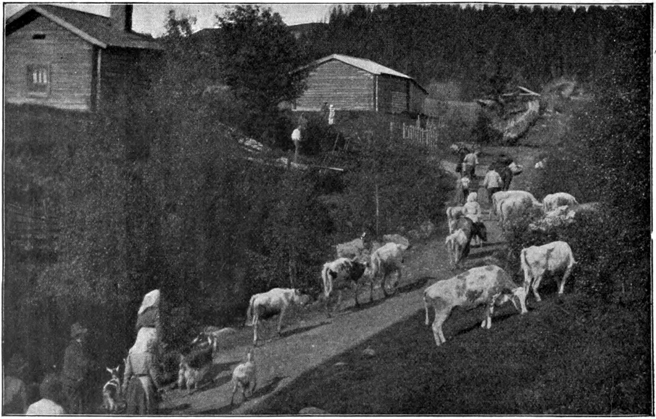 "Ankomsten till fäbodvallen." Illustration from Nils Holgerssons underbara resa genom Sverige by Selma Lagerlöf.